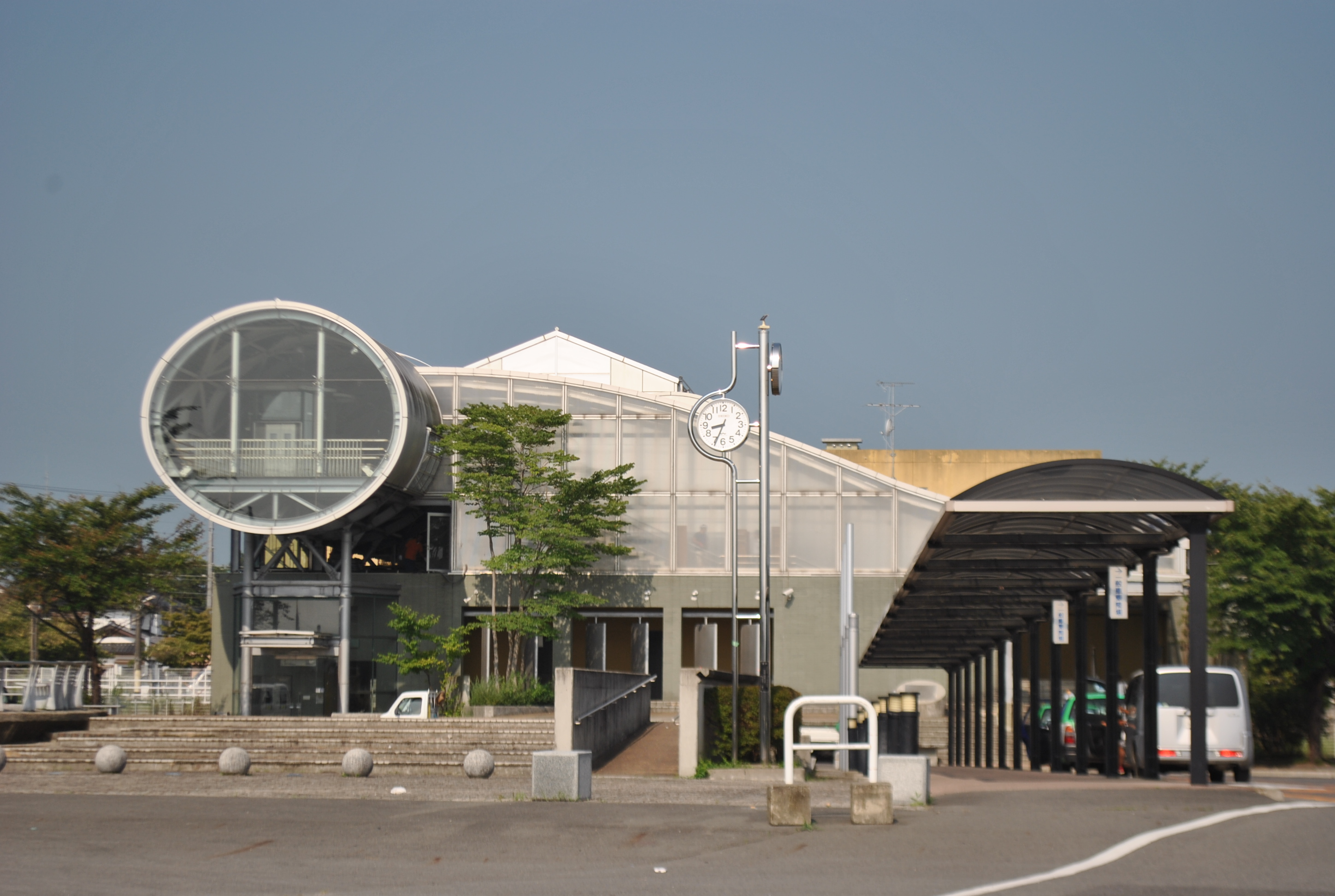 Yabuki Station in Yabuki Town, Fukushima Pref., Japan.